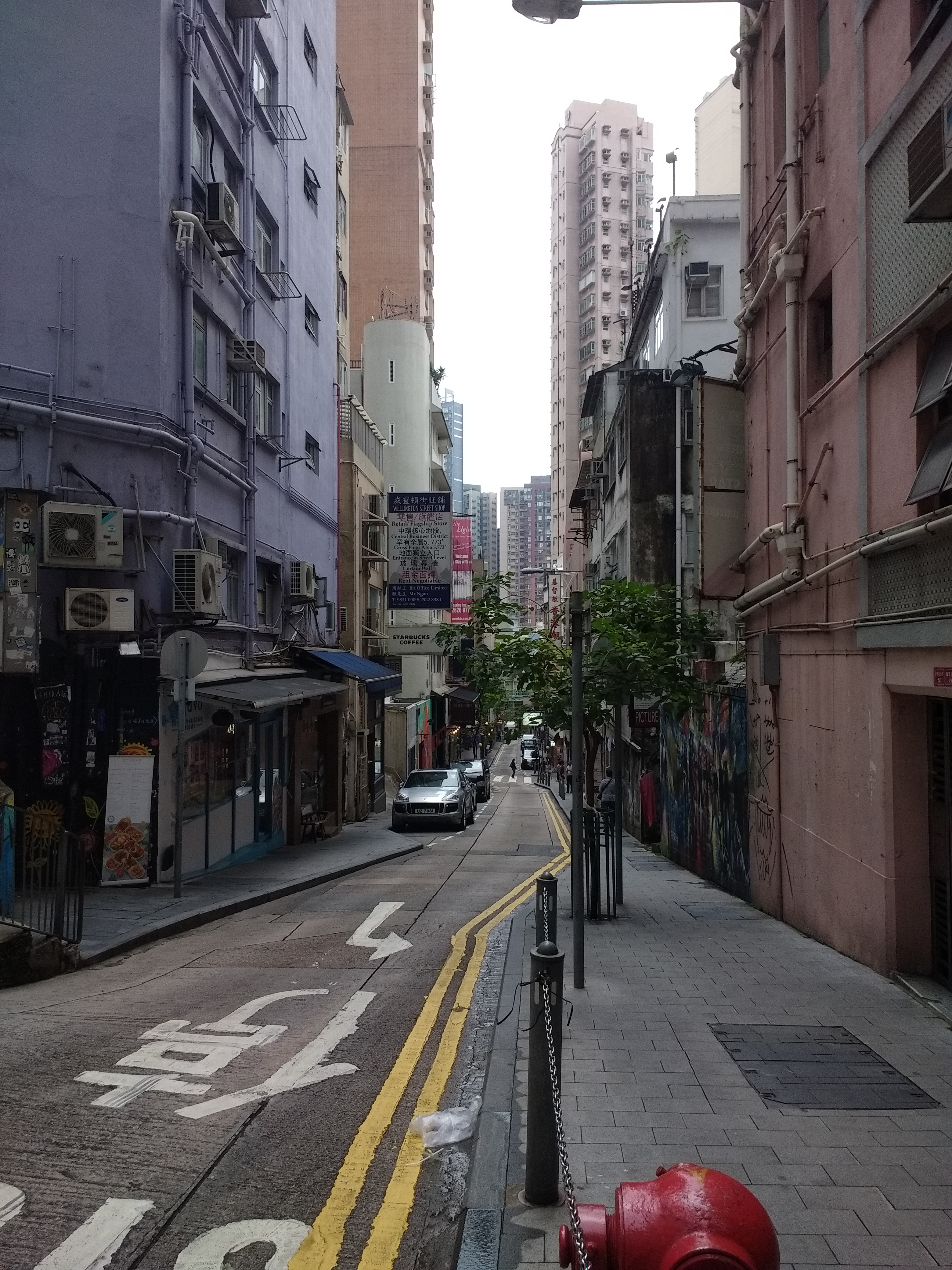 Elgin Street in Central, Hong Kong